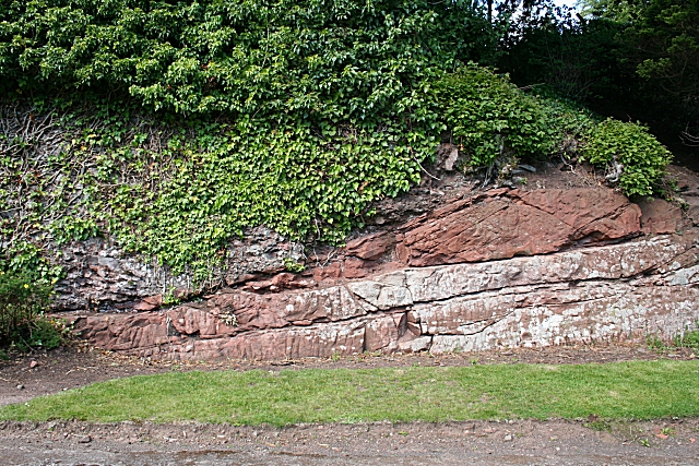 Aeolian red sandstone. The northern face of the former quarry is becoming overgrown, but here there is a good example of the Locharbriggs Sandstone Formation, the same sandstone as that in Locharbriggs quarry. This is New Red Sandstone, laid down as sand dunes in a desert environment during the Permian Period. (Old Red Sandstone was laid down much earlier, in the Devonian.)